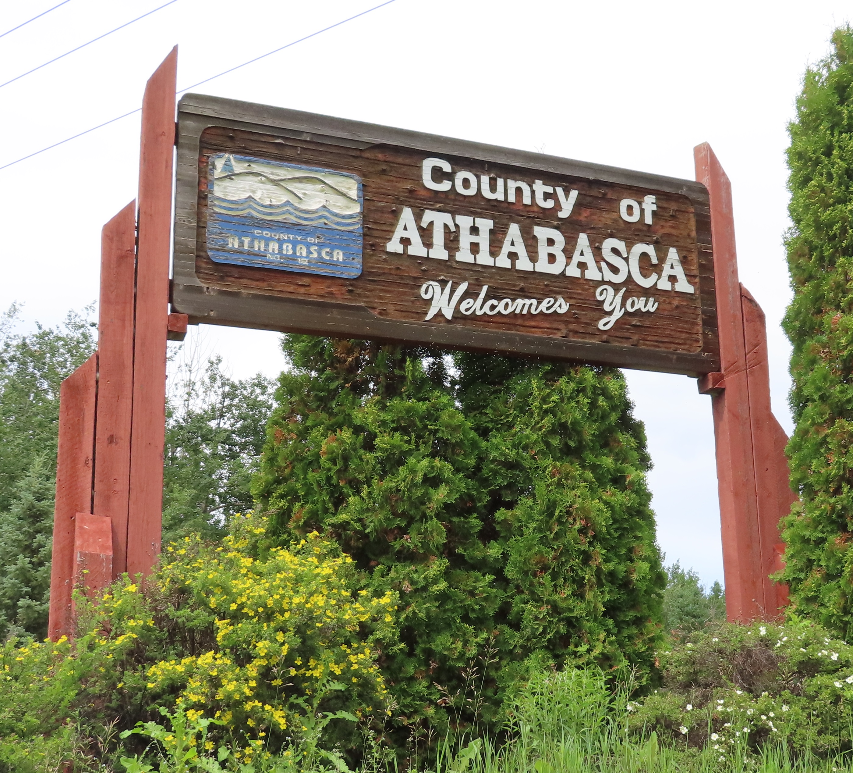 Sign marking the eastern boundary of the County of Athabasca, Alberta, Canada.